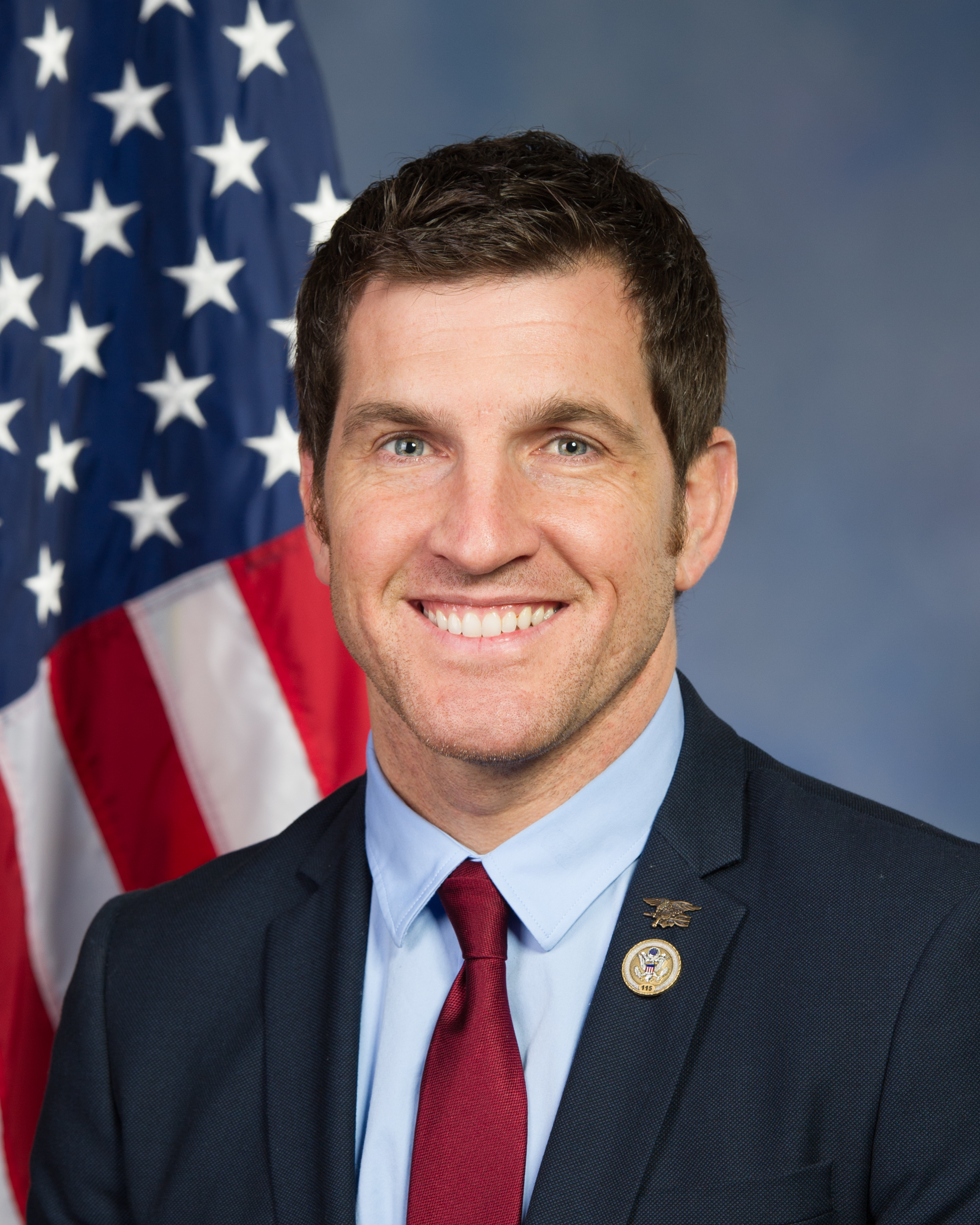 Scott Taylor image